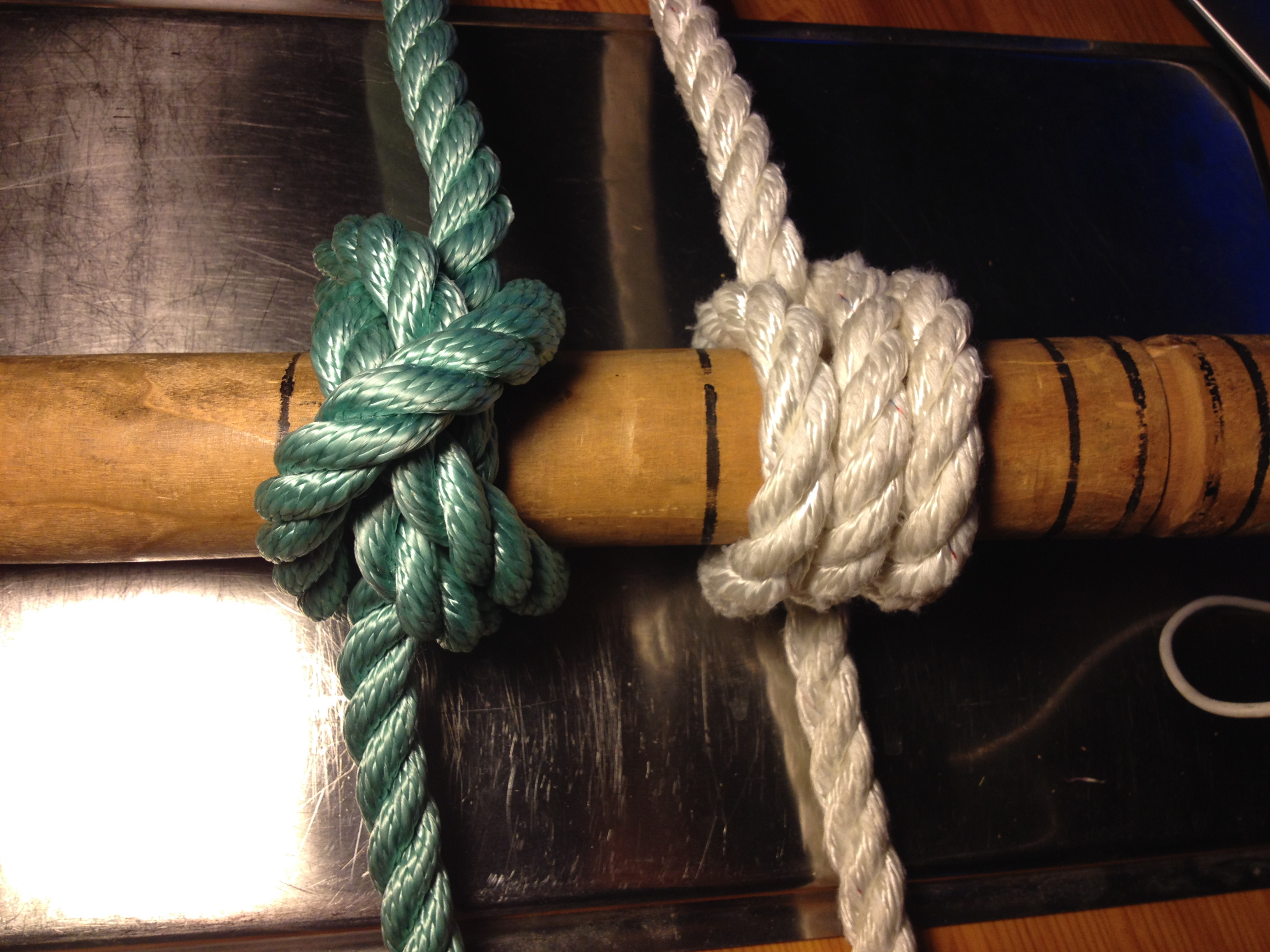 Thighthened constrictor knot with crossing bridges top and bottom view